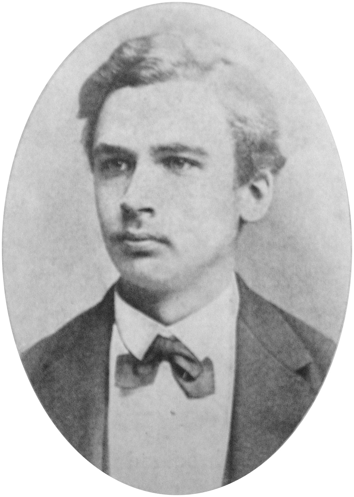 Picture of Harald Sohlman, Swedish journalist